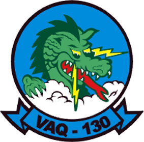 Insignia of the U.S. Navy Electronic Attack Squadron 130 (VAQ-130) "Zappers". The insignia was approved for VAW-13 on 13 May 1963 and following redesignation to VAQ-130 on 1 October 1968, the squadron maintained the old insignia and changed the banner to read VAQ-130.